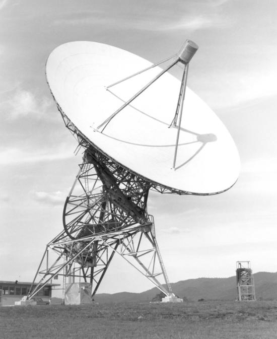 The Howard E. Tatel Radio Telescope, built in 1958, was the first major radio telescope at the National Radio Astronomy Observatory (NRAO) in Green Bank